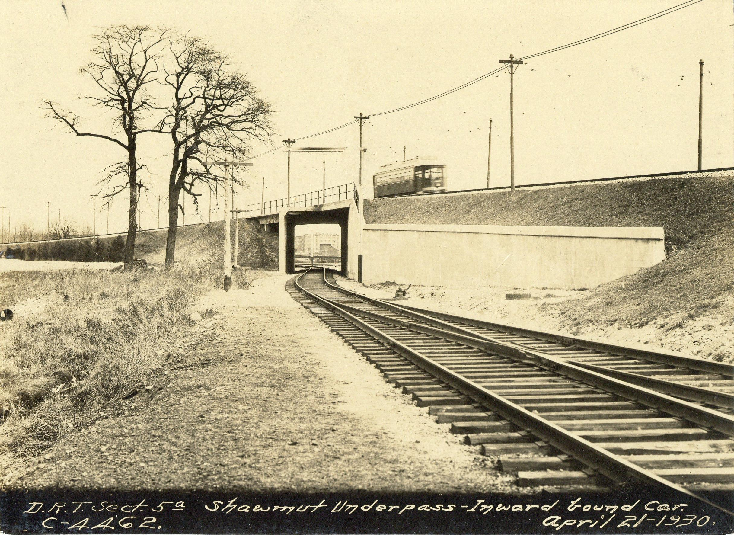 A Type 4 trolley inbound to Ashmont makes its way over the Shawmut Junction overpass in April 1930